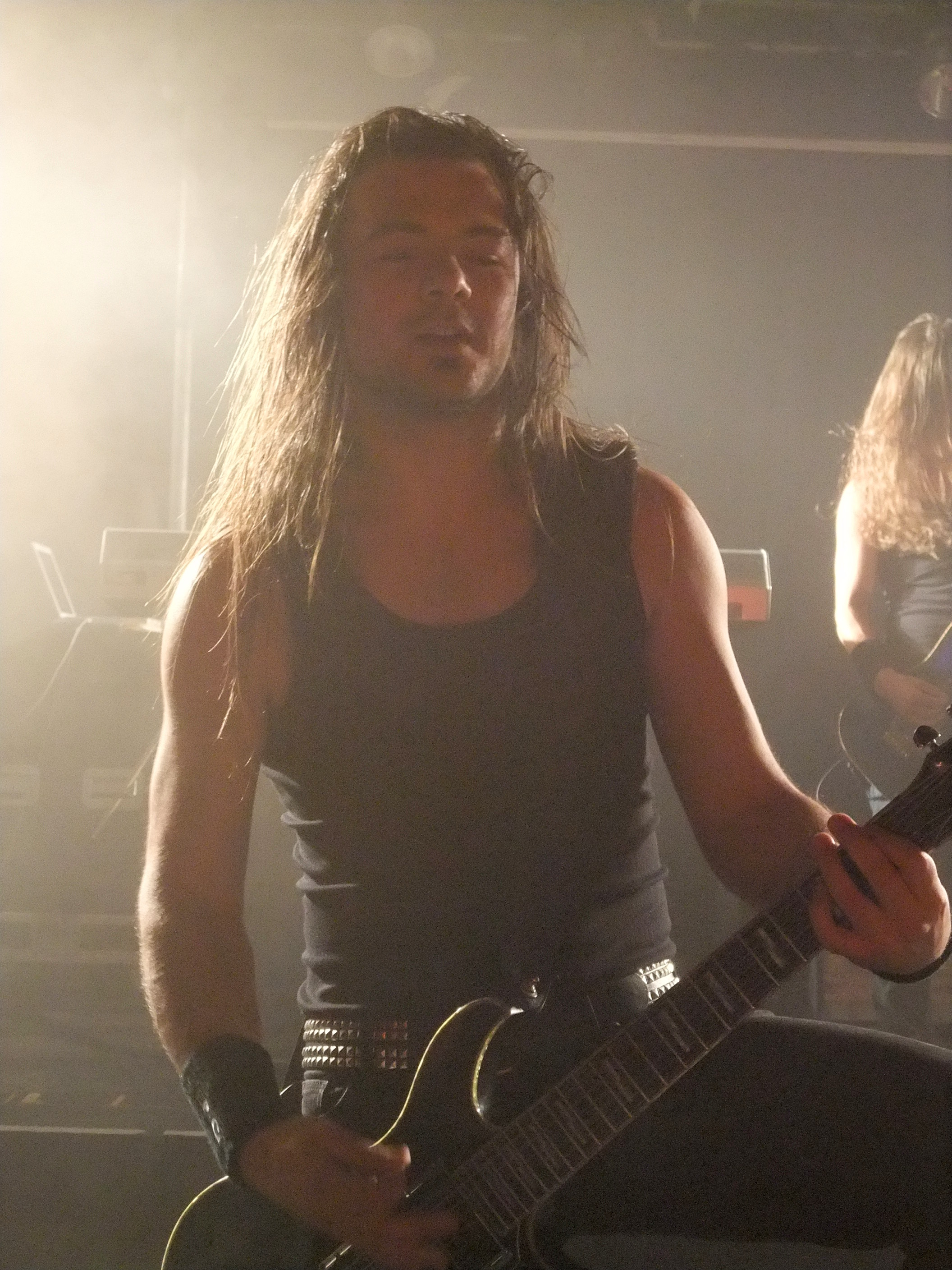 Isaac Delahaye performing with Epica at The Scala in London, 15th March 2011